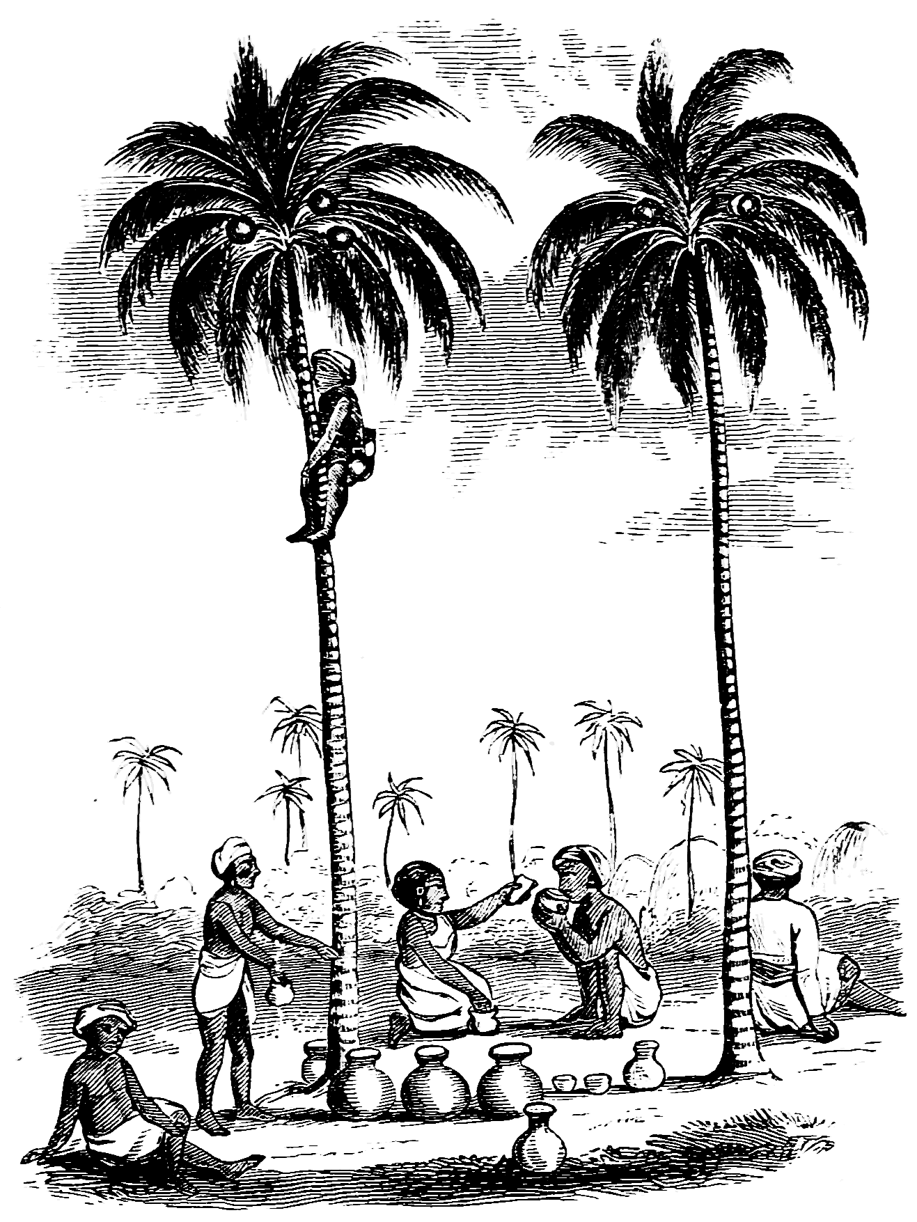 Cocoanut trees, and Toddy gatherers of Southern India